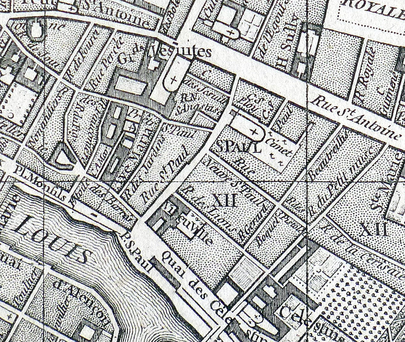 Vaugondy's map of Paris (Saint-Paul district) - 1760